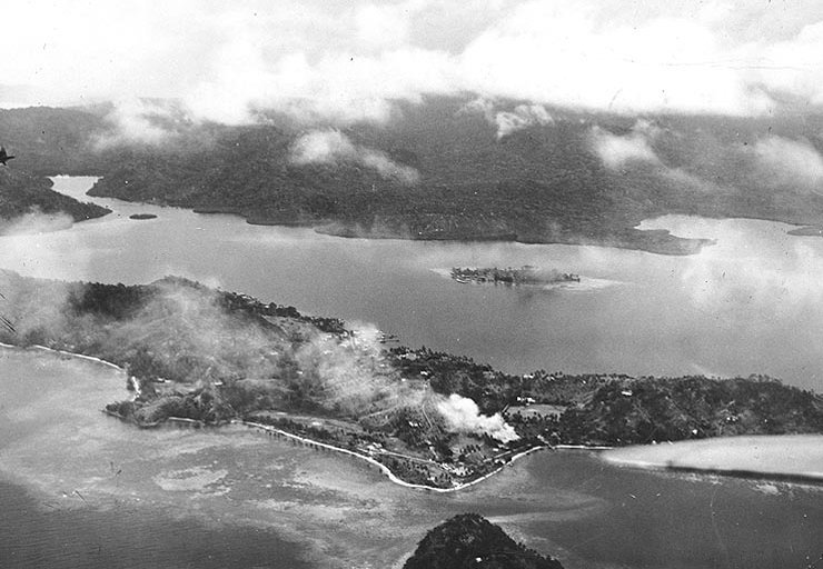 Guadalcanal-Tulagi Operation, August 1942: Fires burn near the Tulagi Cricket Grounds, after bombing by U.S. carrier aircraft on 7 August 1942, the day U.S. Marines landed to capture the island. Photographed from a U.S. Navy plane, this view looks about north.